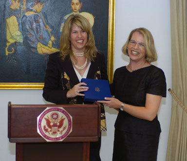 Andrea Bottner (Director of the International Women's Issues Office at the U.S. Department of State), to the left, presenting the Secretary of State's International Women of Courage Award to Professor Ruth Halperin-Kaddari (Director of the Ruth and Emanuel Rackman Center for the Advancement of the Status of Women, and Member of the UN CEDAW Committee), to the right